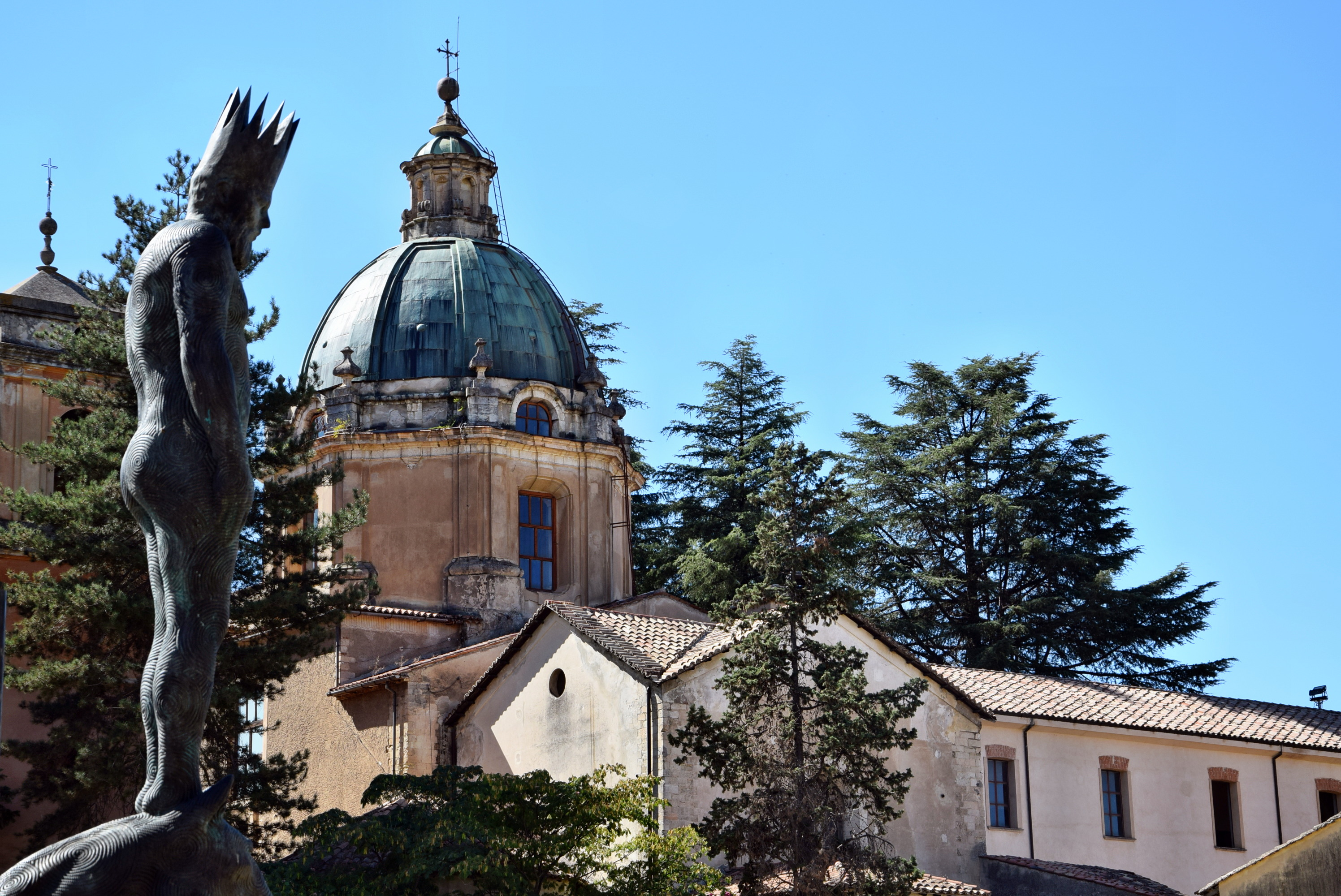 This is a photo of a monument which is part of cultural heritage of Italy.